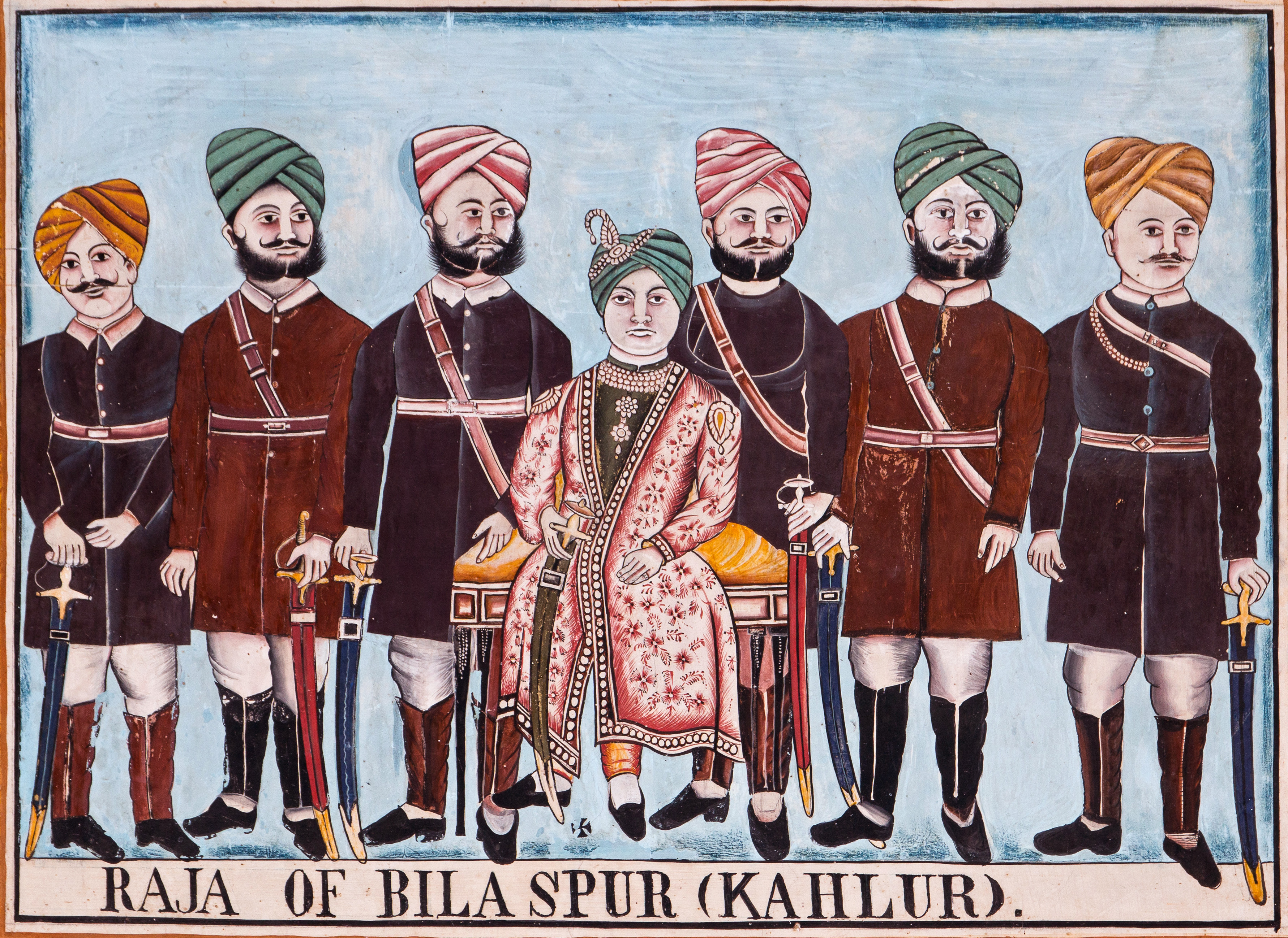 Maharajah of Bilaspur surrounded by the Rajput chiefs of the Himachal Pradesh.